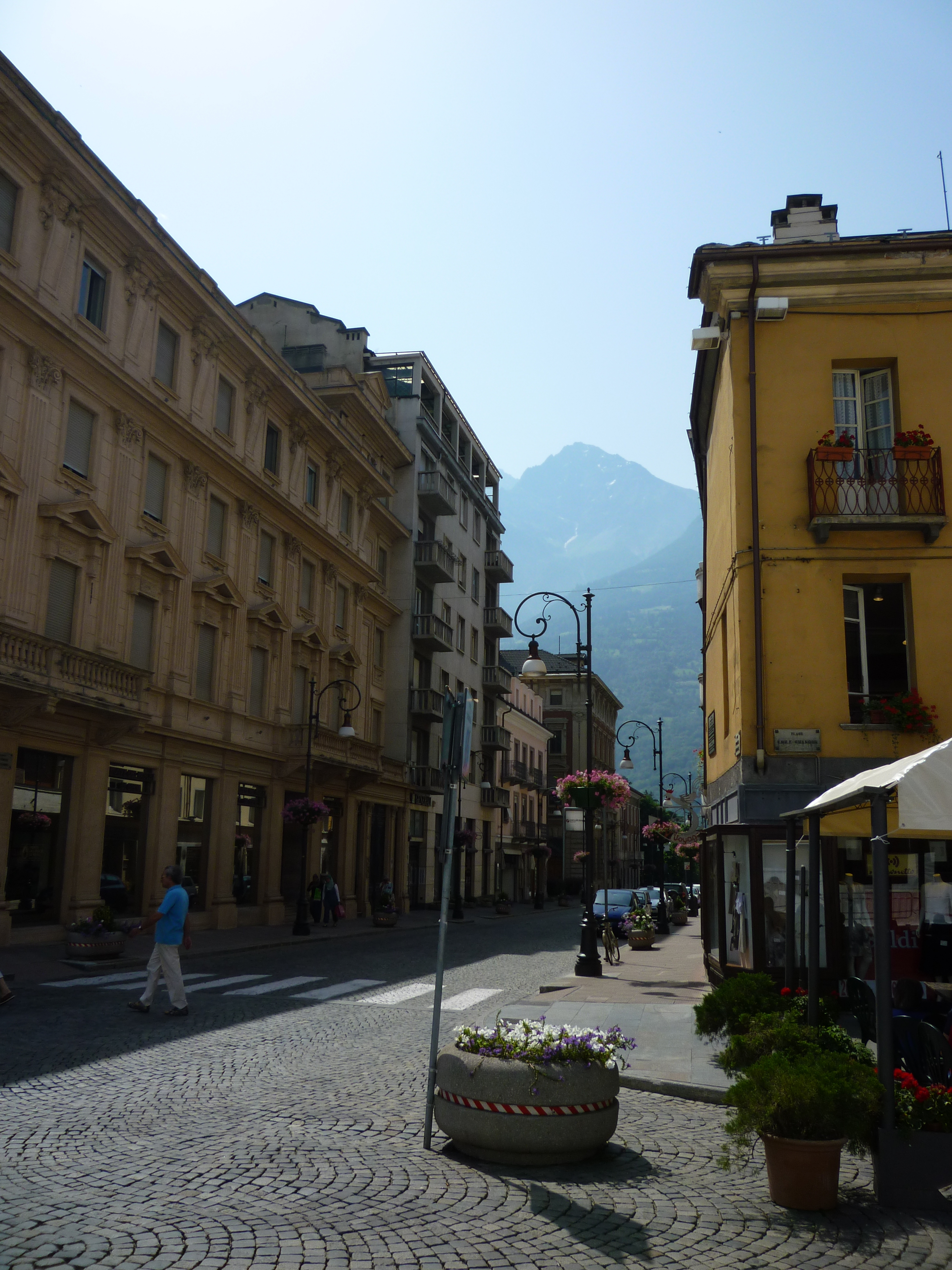 The Pic de Nona seen from Emile Chanoux square (Aosta-Aoste, Italy)